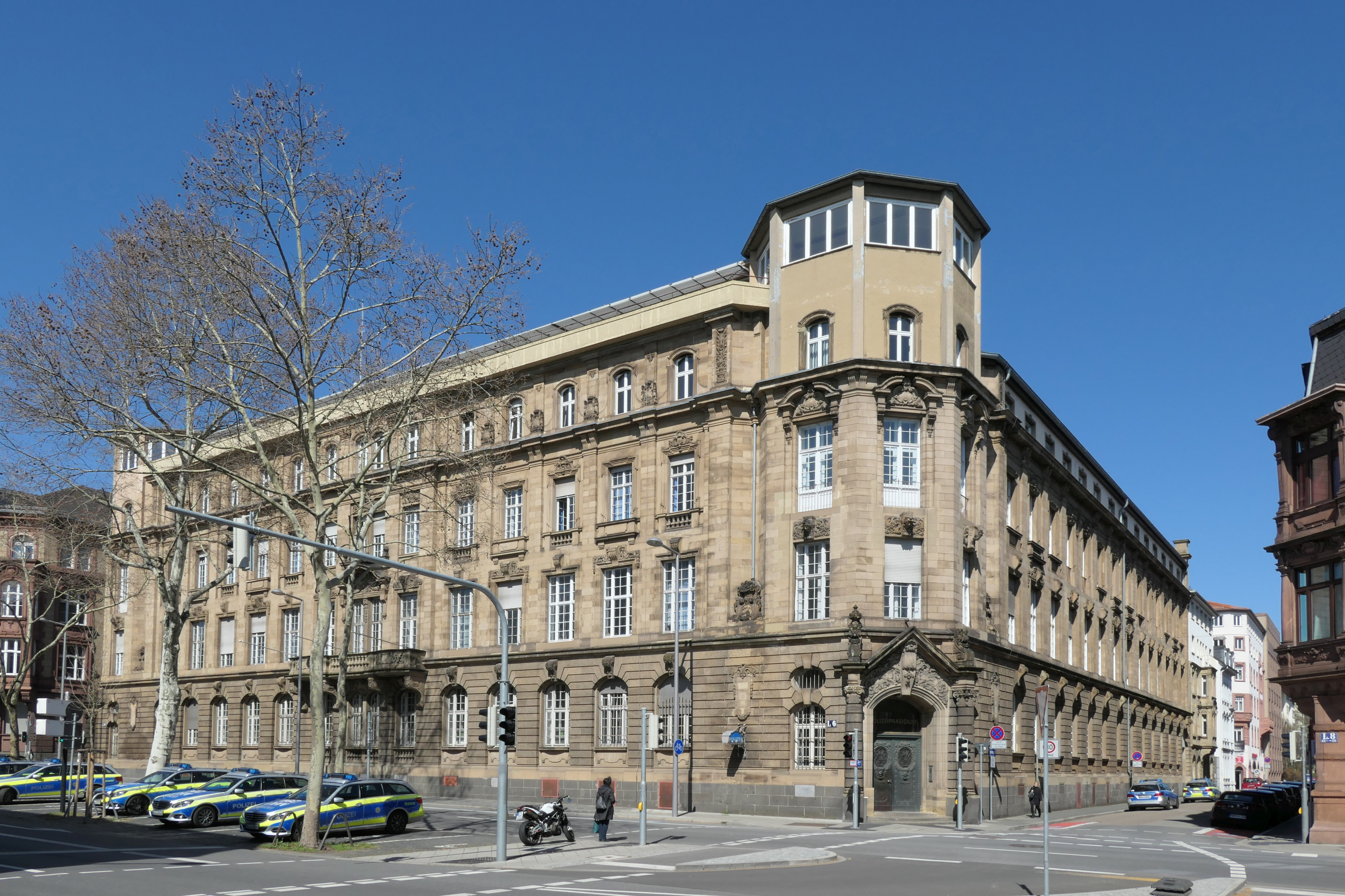 Police headquarters, Mannheim, Germany